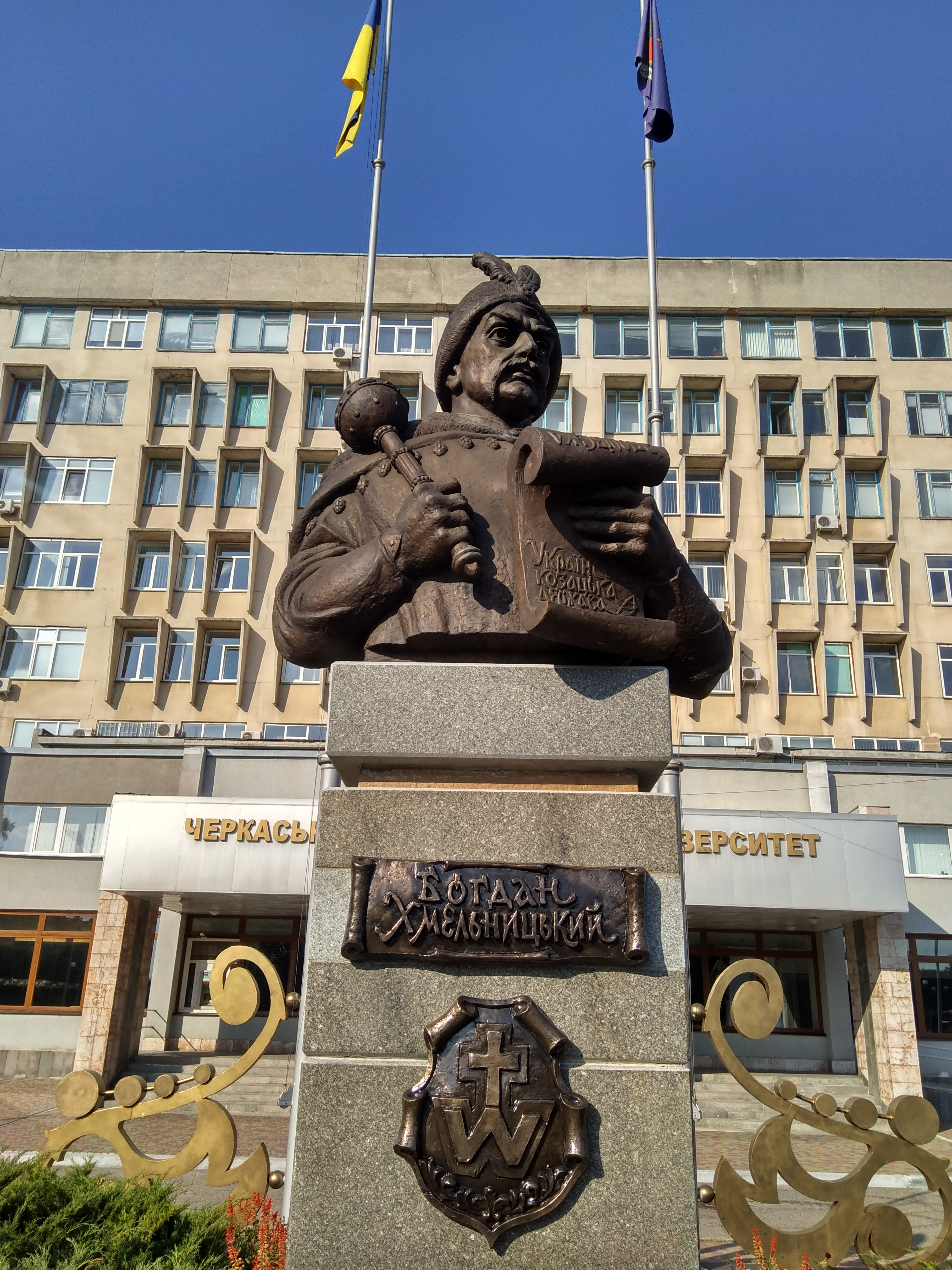 The monument to Bohdan Khmelnytsky near The Bohdan Khmelnytsky National University of Cherkasy, Ukraine. Sculptor - Ivan Fizer, 2014.